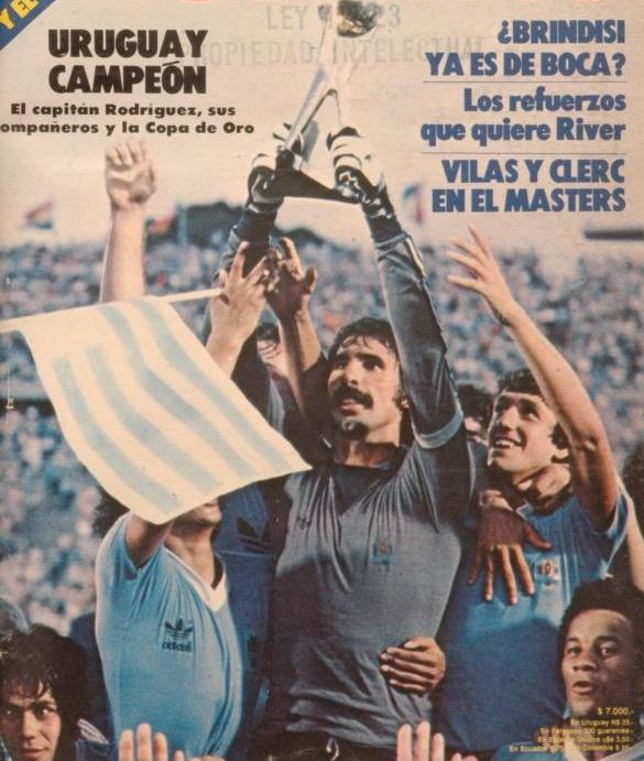 The Uruguayan goalkeeper Rodolfo Rodríguez raising 1981 Mundialito trophy